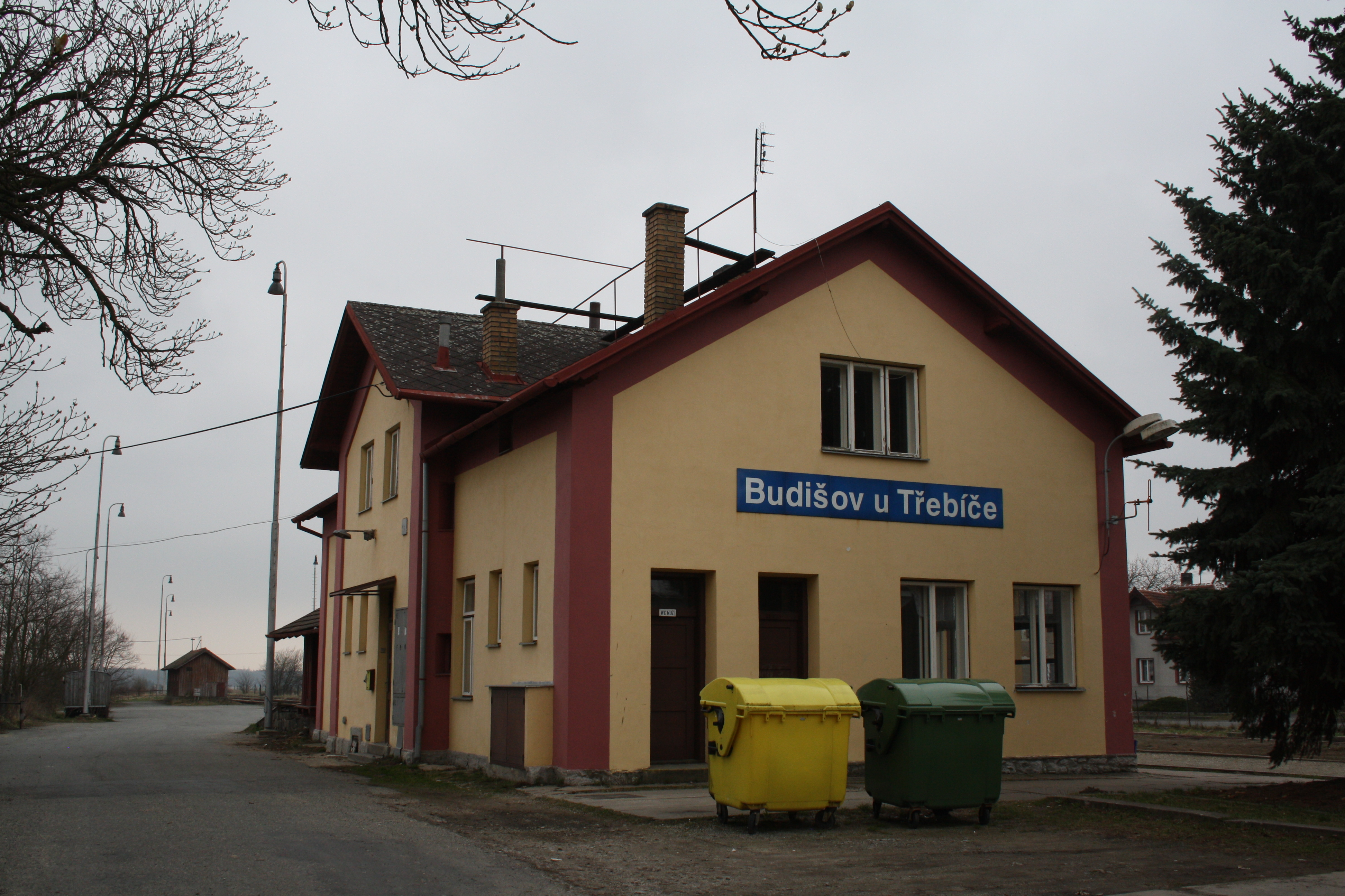 Train station in Budišov u Třebíči.